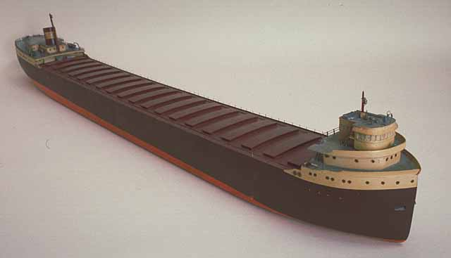 Scale model of the Lake Superior ore boat Edmund Fitzgerald. Upper bow deck includes observation cabin, horn, searchlight, and liferaft. Upper stern deck includes 2 lifeboats, ladders, crane, 6 barrels, and a smokestack. The smokestack has a painted yellow star on its side. A four-wheeled metal trolley straddles the top of the mid-deck. The lower deck is surrounded by a gate made of needle head posts and wire.